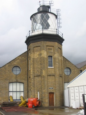 Bow Creek Lighthouse at Trinity Buoy Wharf.